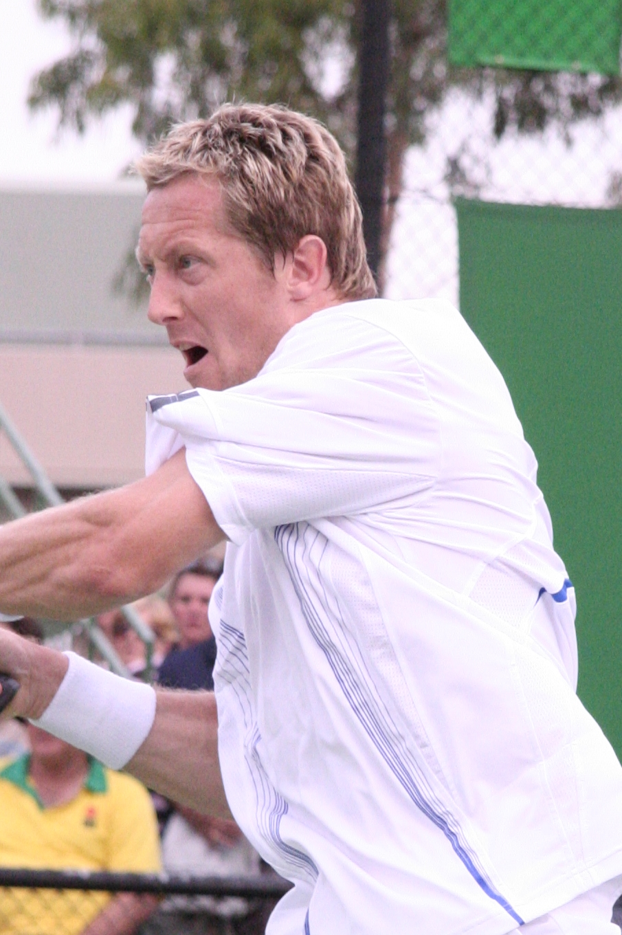 Jonas Björkman at the 2007 Australian Open, during his first-round mens doubles match, partnering Max Mirnyi (they were seeded 2nd).